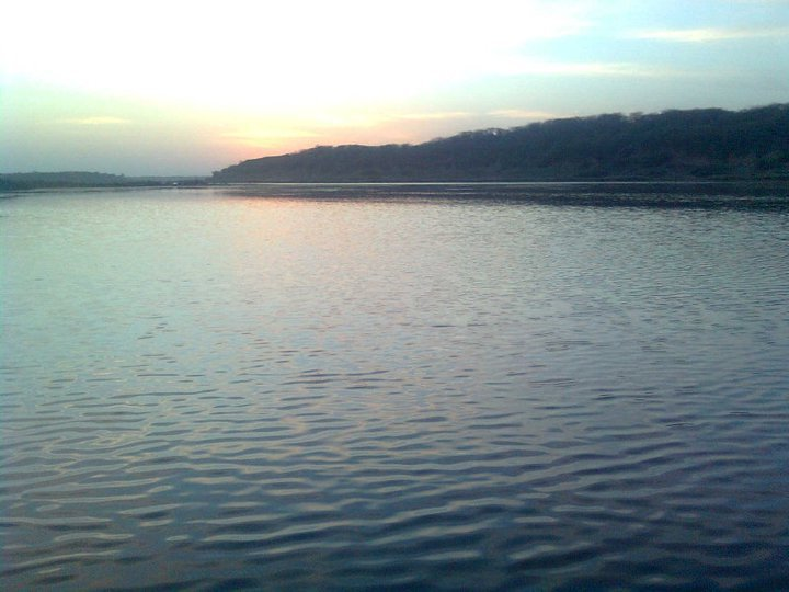 Baldara